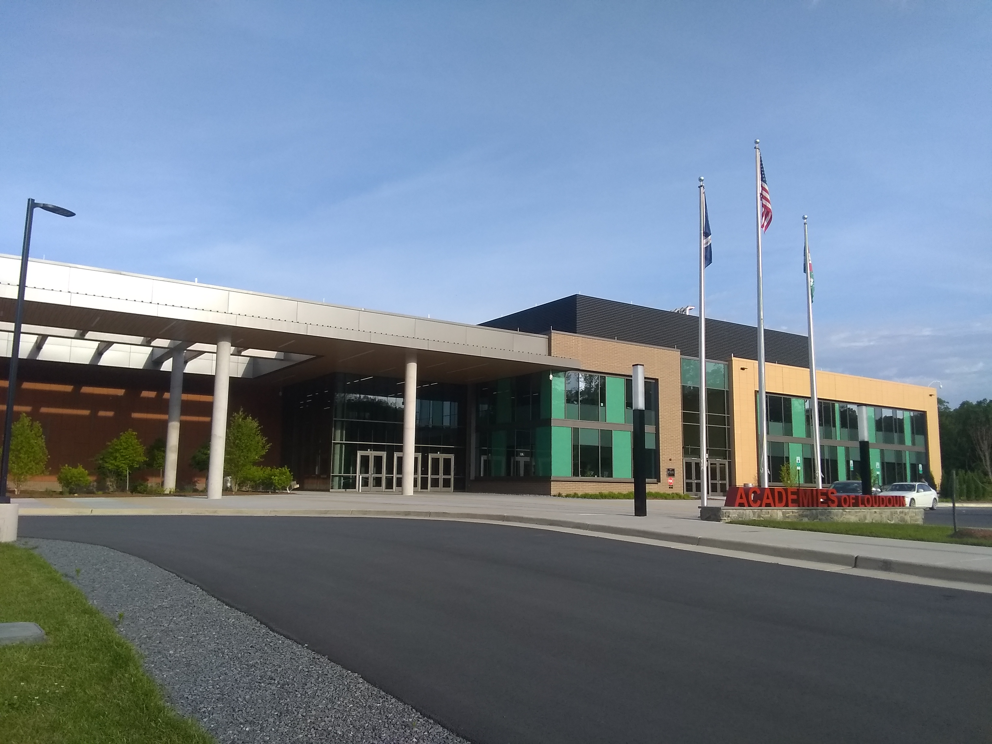 The Academies of Loudoun building, which opened in the 2018-2019 school year, houses Loudoun County Public School's Academy of Science, Academy of Engineering and Technology, and Monroe Advanced Technical Academy.